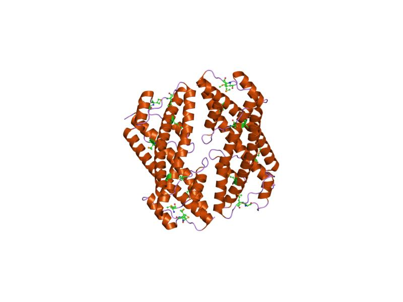 Cartoon representation of the molecular structure of protein registered with 1k1f code.